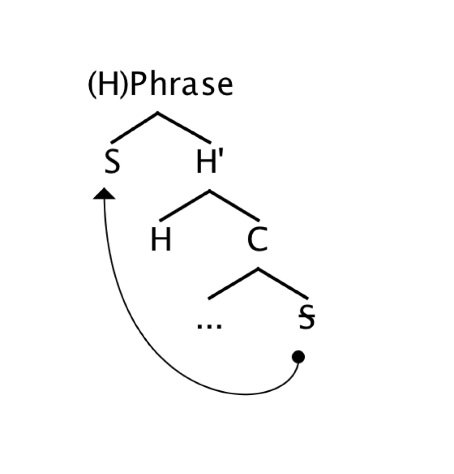 Basic example of movement within an X-Bar syntactic tree